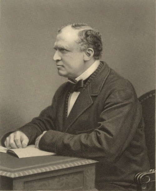 Image cropped, rotated, and scaled using The GIMP.